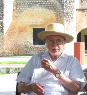 Photograph of Eugene F. Rice, Jr. in Mexico